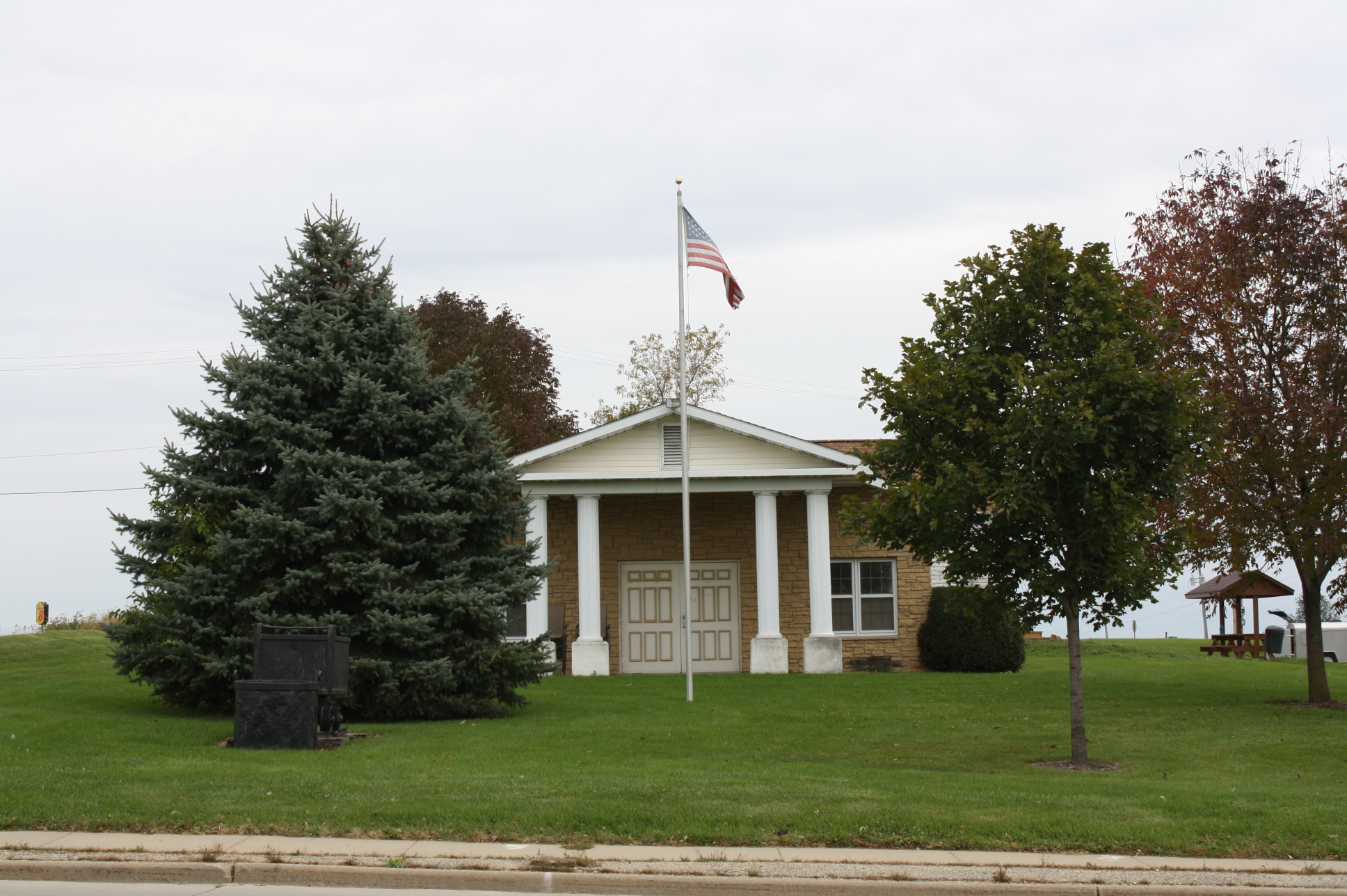 The Iowa County, Wisconsin historical society building along Wisconsin Highway 23 in Dodgeville, Wisconsin.